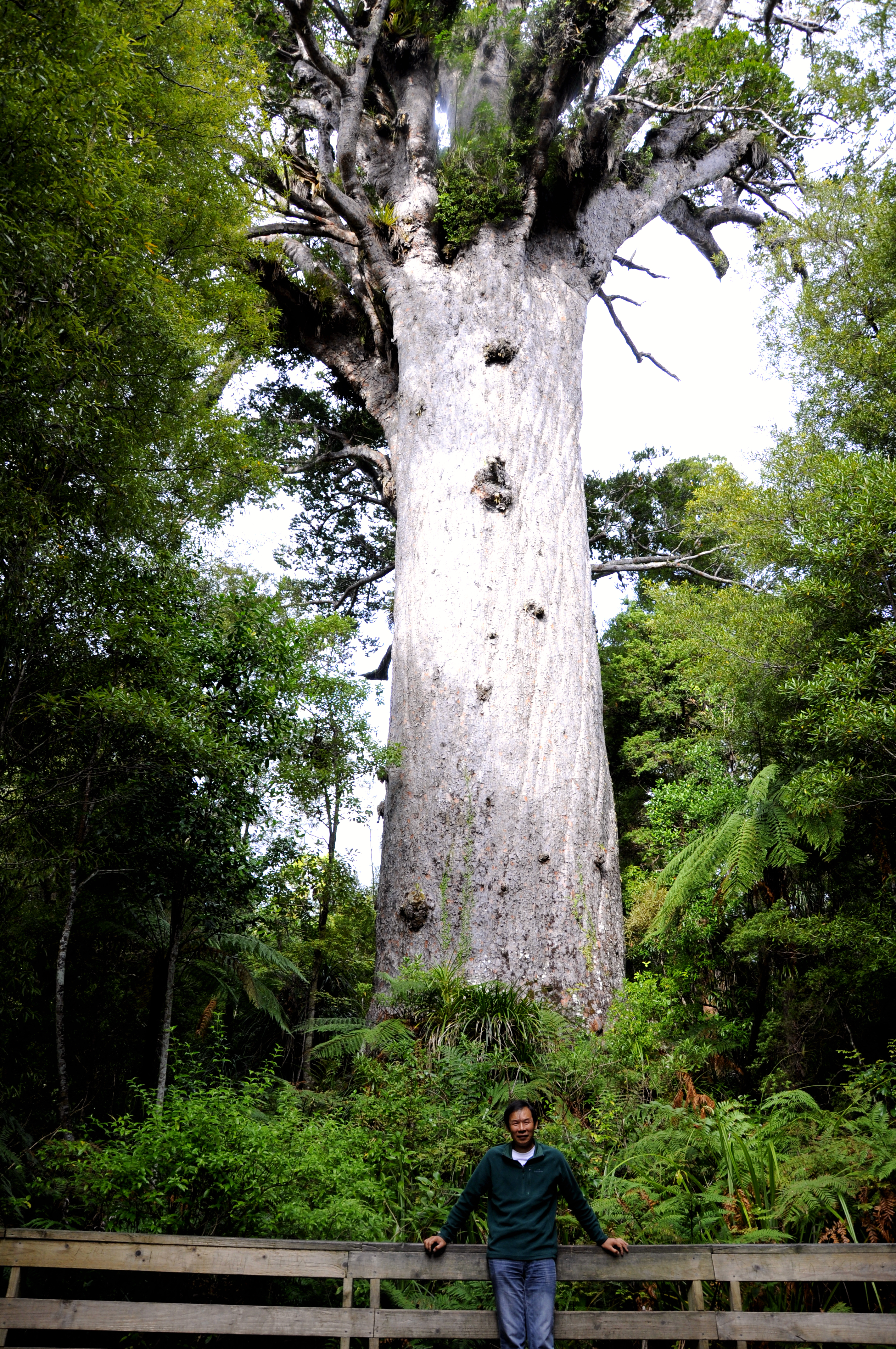 The giant kauri tree (Agathis australis) named Tāne Mahuta in the Waipoua Forest of Northland Region, New Zealand. This photo has been taken by Prof. Chen Hualin